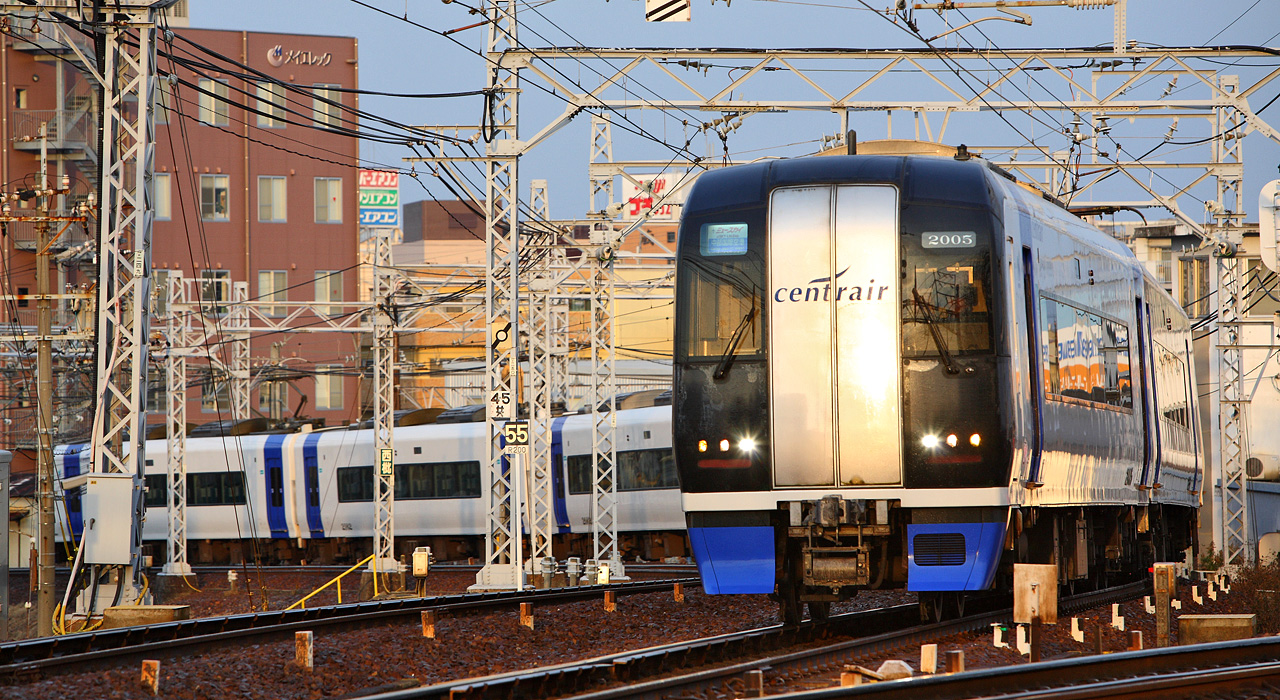 Meitetsu 2000 series EMU (2005F + 2012F at Biwajima Junction)